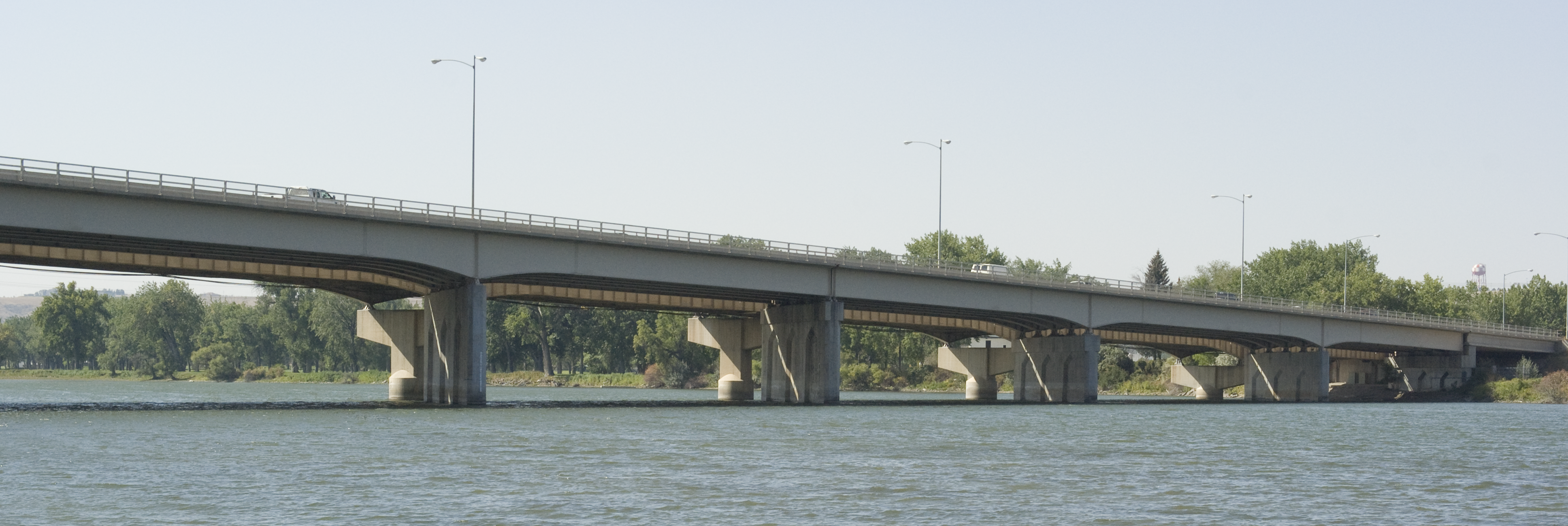 O.S. Warden Bridge